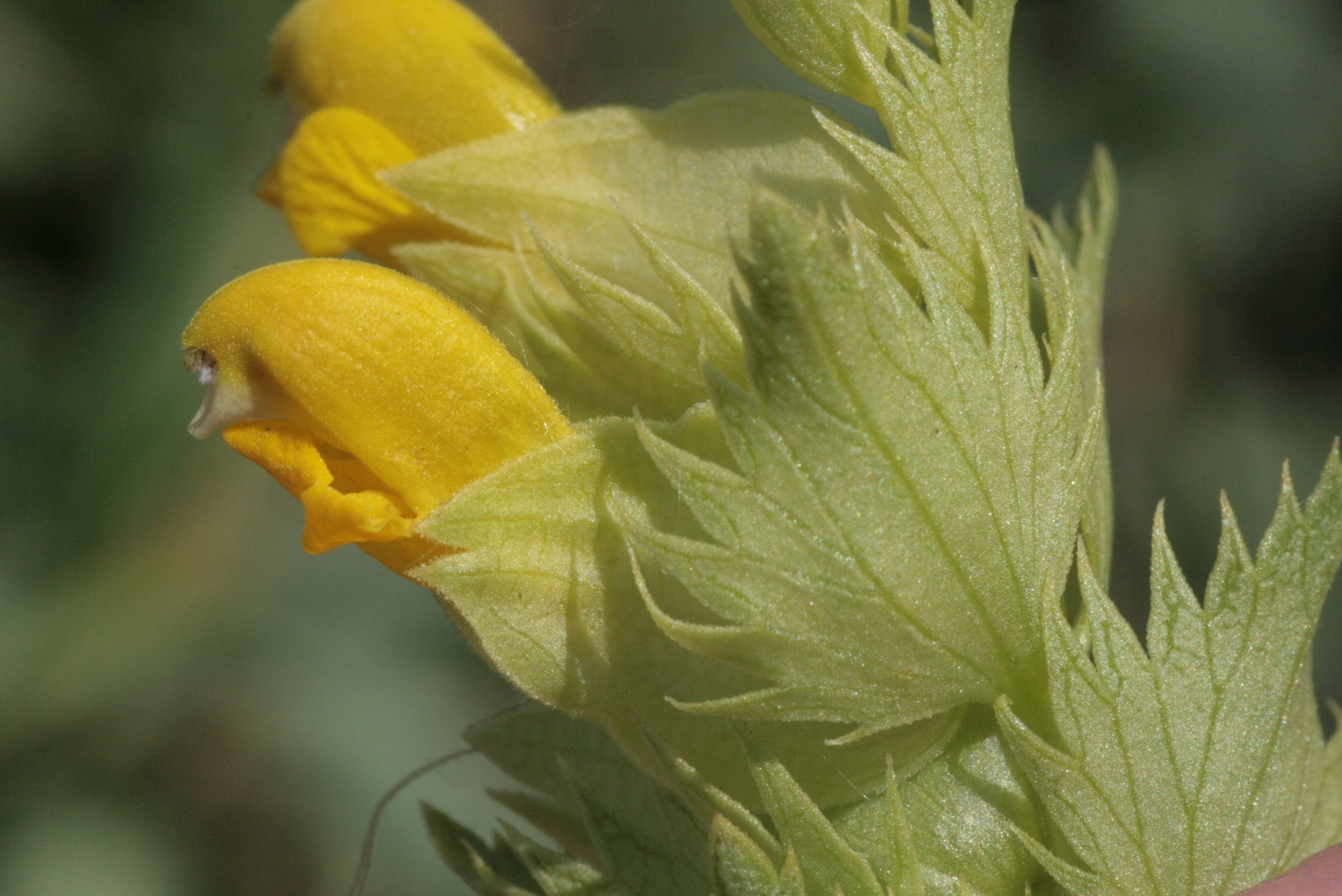 Rhinanthus serotinus